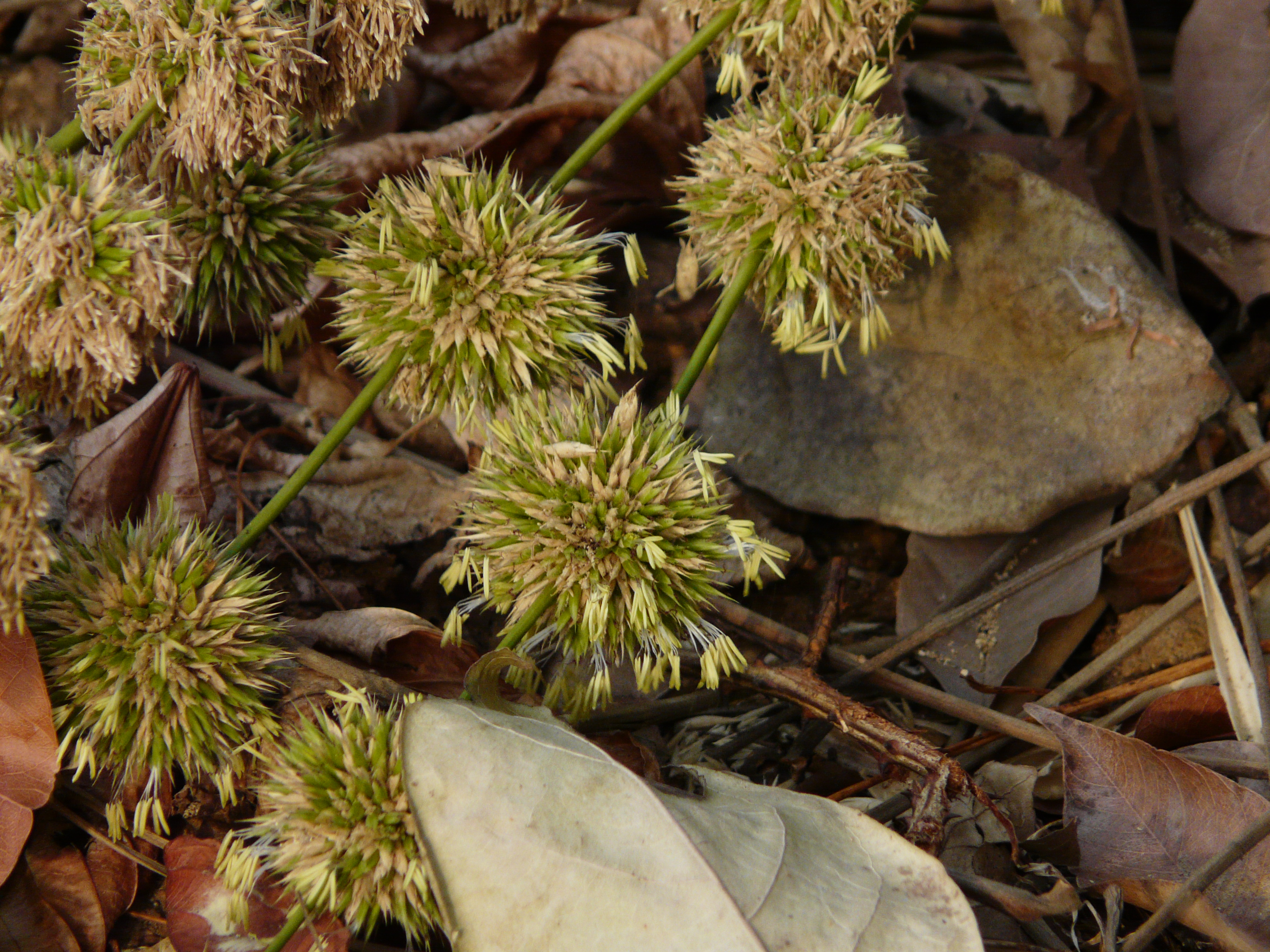 Poaceae (grass family) » Dendrocalamus strictus den-droh-KAL-uh-mus -- from the Greek dendron (tree) and calamus (reed) STRIK-tus -- meaning, erect, upright commonly known as: Calcutta bamboo, hard bamboo, iron bamboo, male bamboo, solid bamboo, stone bamboo • Bengali: বাঁশ bamsa • Gujarati: બાંસ bans • Hindi: बांस bans • Kannada: ಬಿದಿರು bidiru • Konkani: वासो vaaso • Malayalam: കല്ലന്‍മുള kallanmula • Manipuri: khokwa • Marathi: बांस or बास bans, उढा udha, वेळू velu • Mizo: tur-sing • Nepalese: कबान बाँस kaban bans • Oriya: bans • Sanskrit: वंश vansha • Tamil: சிறுமூங்கில் ciru-munkil, கல்மூங்கில் kal-munkil, காட்டுமூங்கில் kattu-munkil • Telugu: పోతువెదురు potu veduru • Urdu: بانس bansa Native to: Bangladesh, India, Nepal, Myanmar, Thailand References: NPGS / GRIN • INBAR • Zipcode Zoo • Digital Dictionaries of South Asia